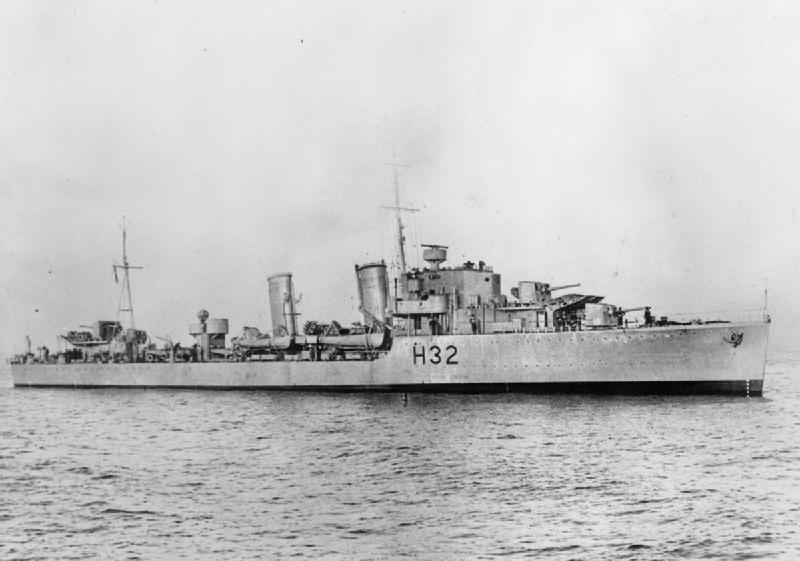 British destroyer HMS Havant (H32) stopped.